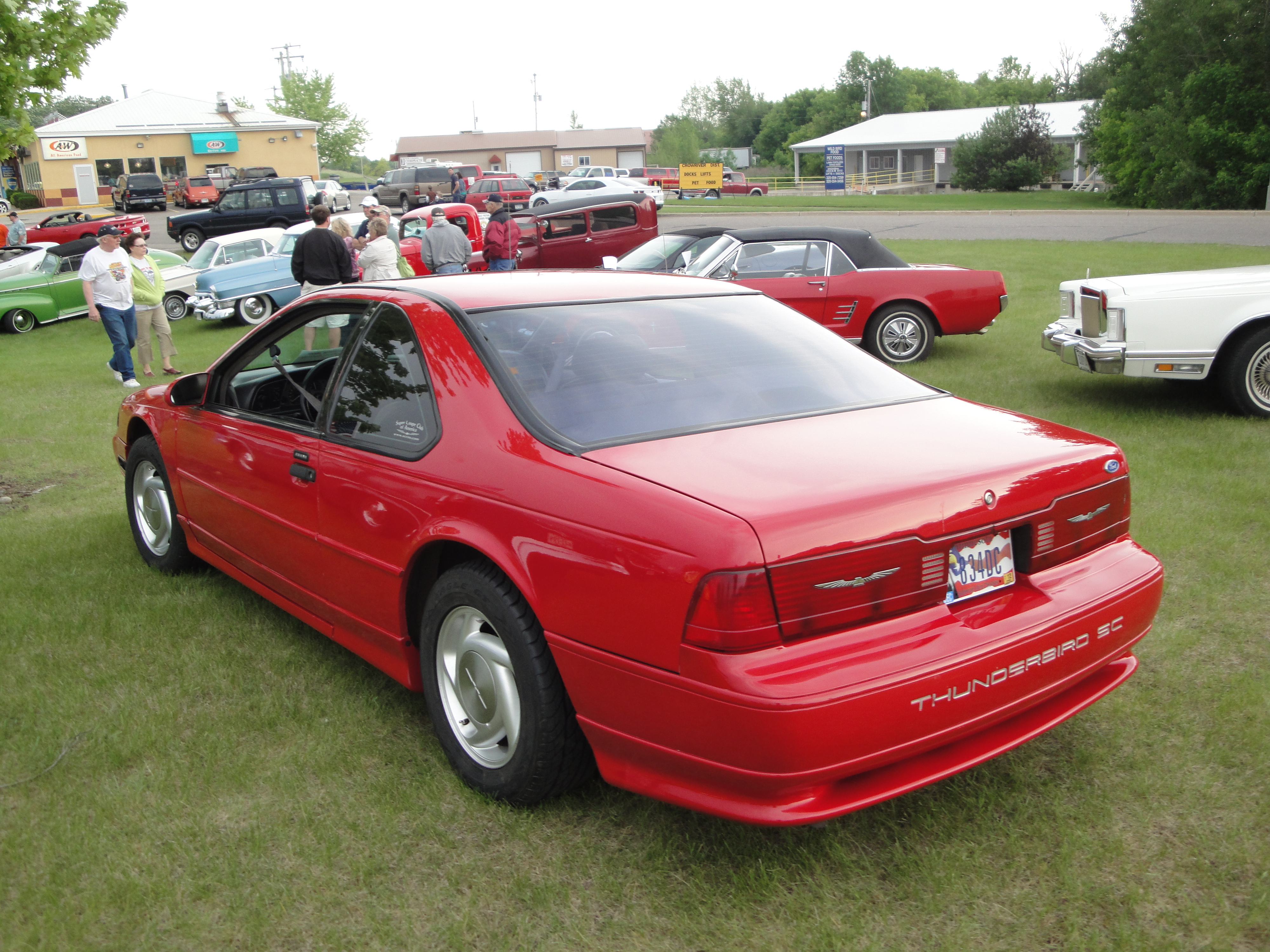 A&W Country Stop Cruise Night Traditionally there is a car cruise from A&W Country Stop in New London to the Kandi Mall in Willmar the Saturday Evening before the Willmar Car Show.